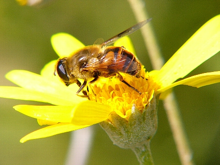 Bee on flower